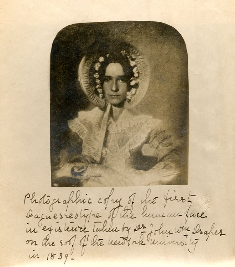 Dorothy Catherine Draper (earliest surviving photograph of a woman)